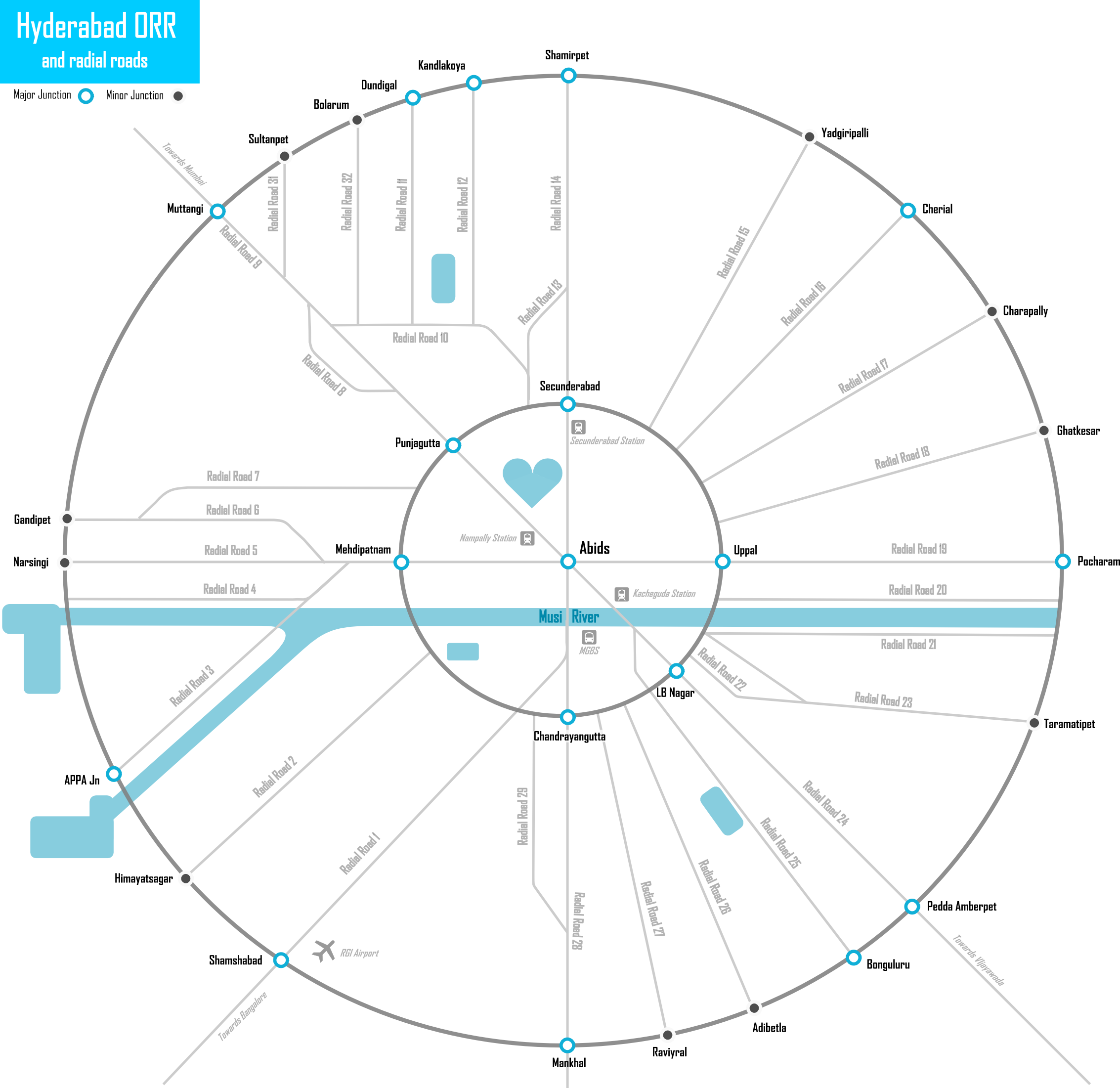 The map represents the list of radial roads that connect the Inner Ring Road with the Outer Ring Road.